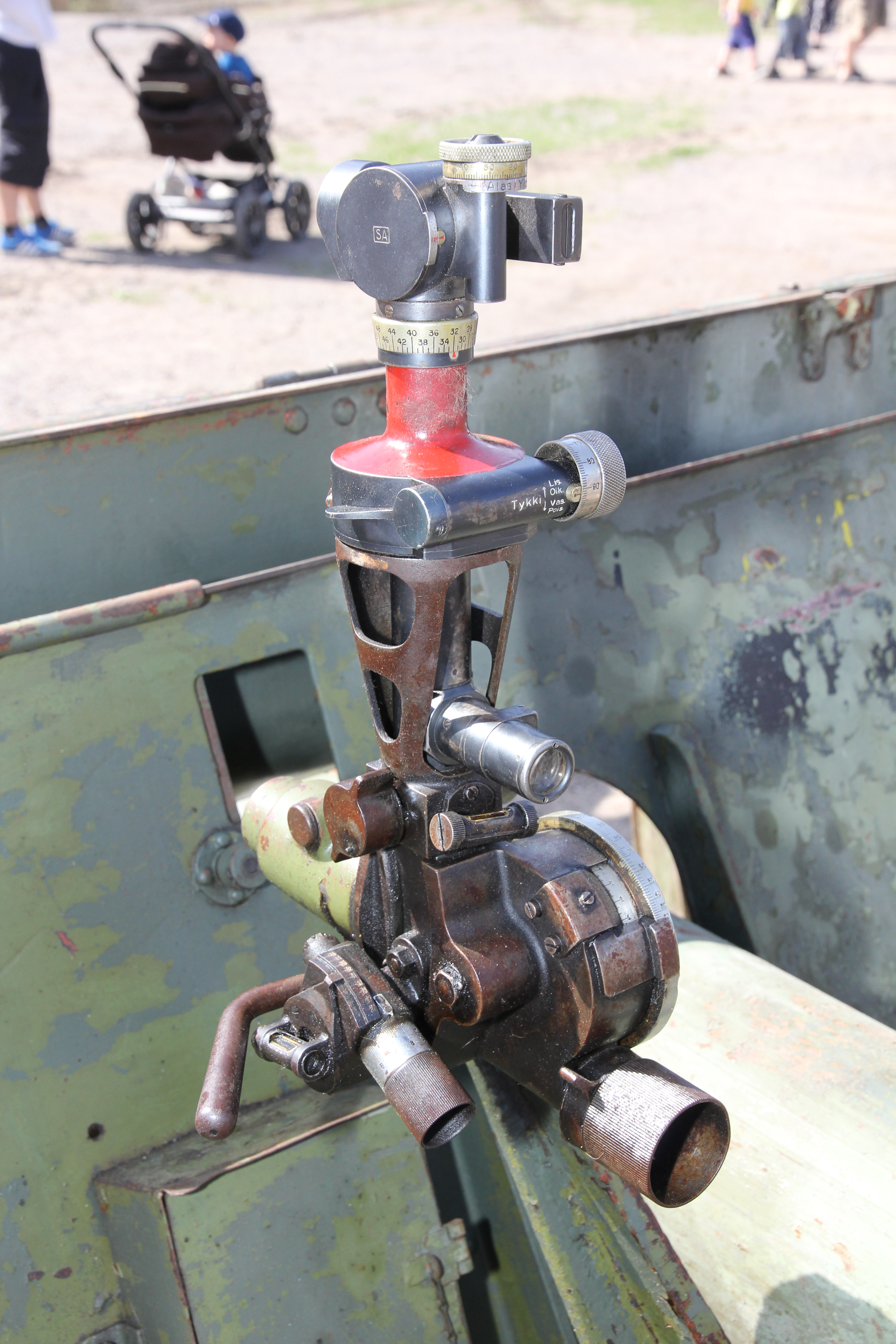 76.2 mm model 1902 gun after battle reenactment display on Adolf Ehrnrooth square during the Finnish military Flag Day 2014 in Lappeenranta Rakuunamäki.